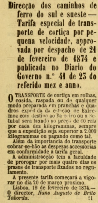 Advertisement of the Caminho de Ferro do Sueste (Portuguese Southeastern Railway) for a special freight rate of cork from Estremoz (Ameixial) to Barreiro and Setúbal. This image was published on the Diario Illustrado newspaper No. 560, of 19th March 1874, and scanned by the Biblioteca Nacional de Portugal.